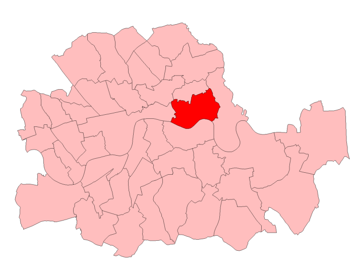 A map of Stepney constituency within the London County Council area, as it existed from 1950 to 1974.